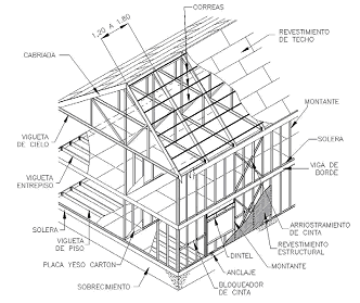 Graph of a construction using steel framing.